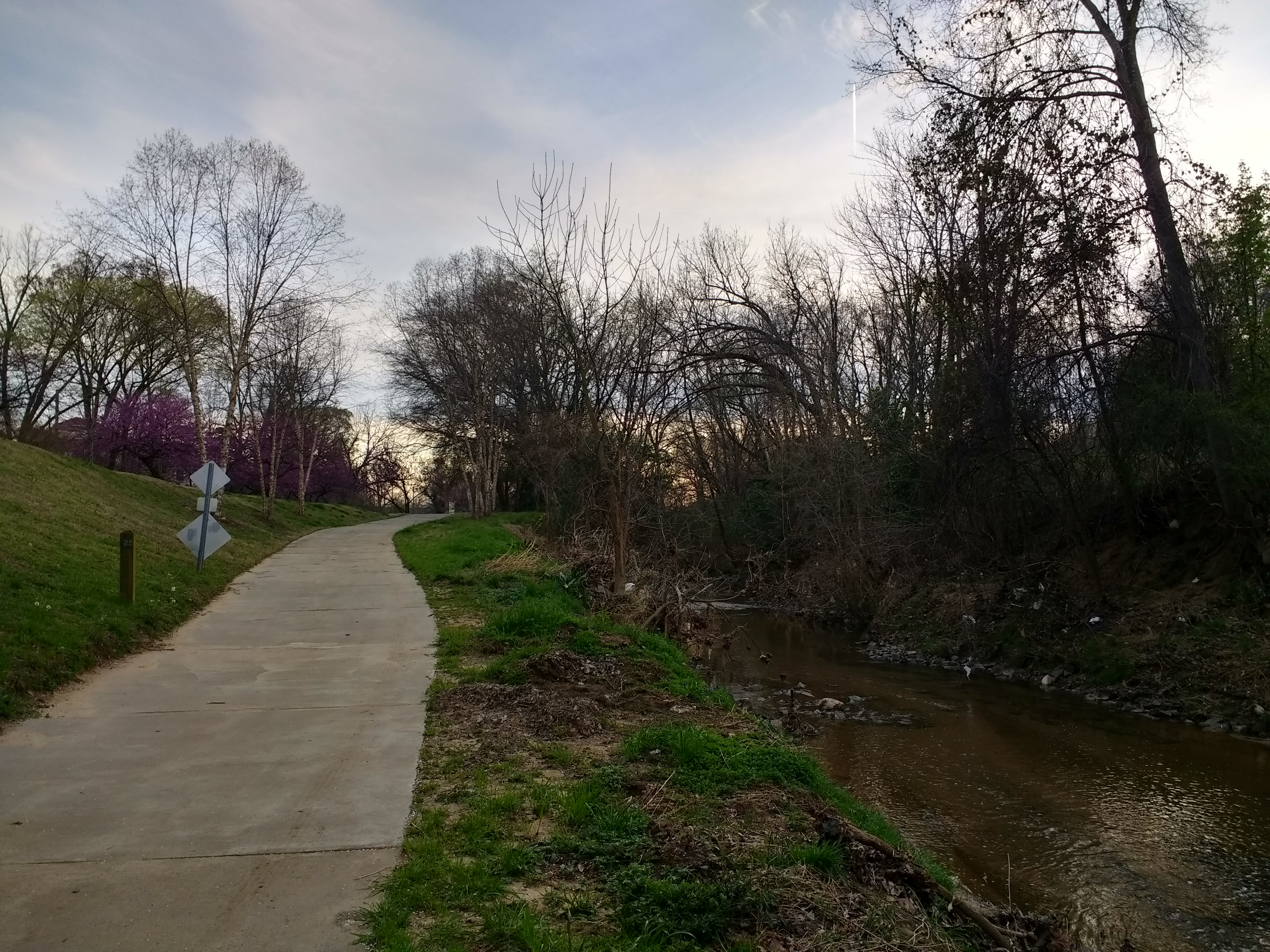 Irwin Creek Greenway, Charlotte, North Carolina.